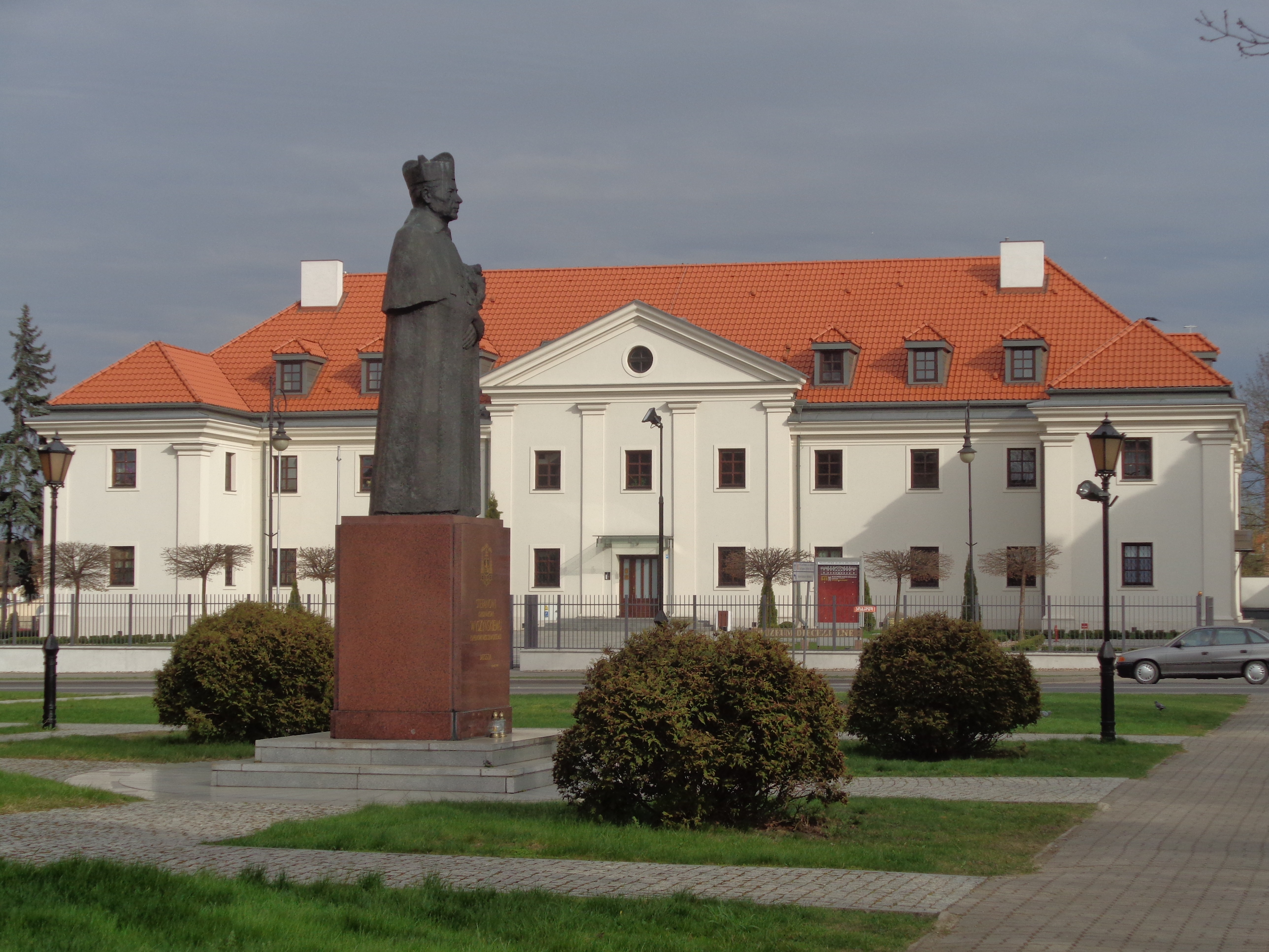 Statue of the card. Stefan Wyszyński in Włocławek on the background of Diocese Museum.